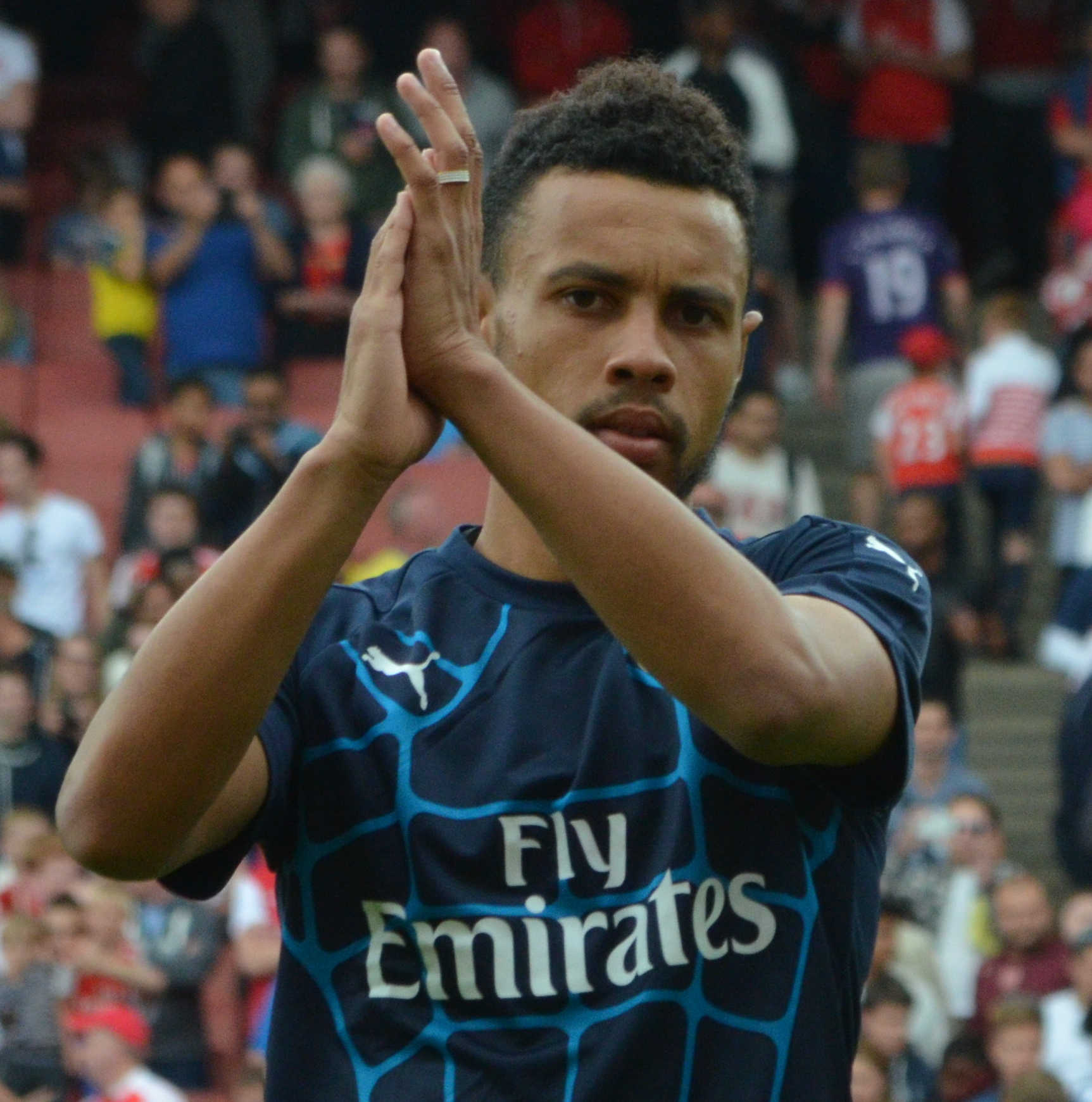 Francis Coquelin warming-up during the 2015 Emirates Cup